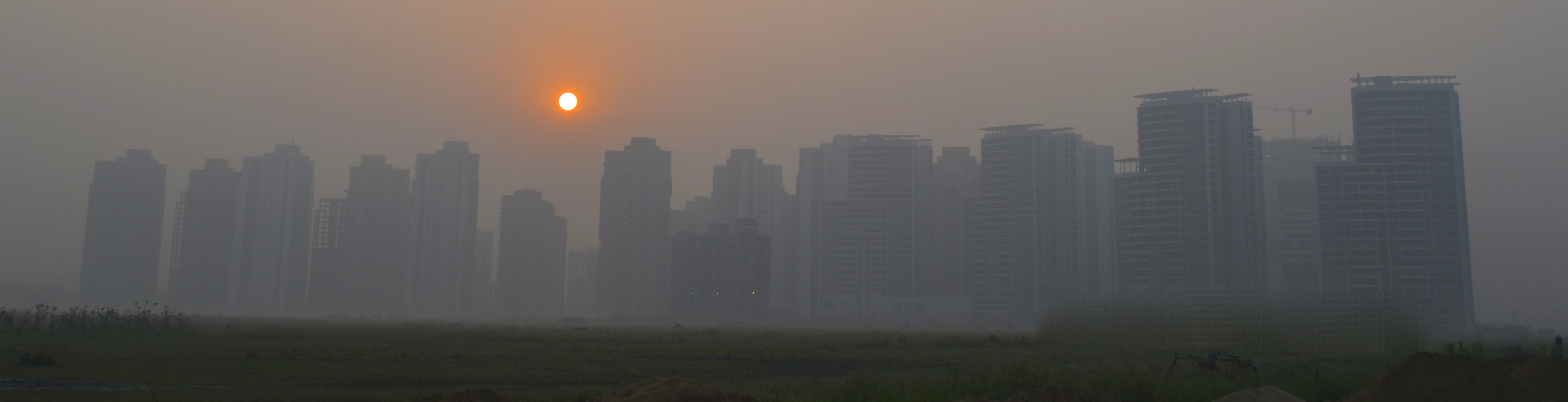 View of new town kolkata AA 3 on a summer morning